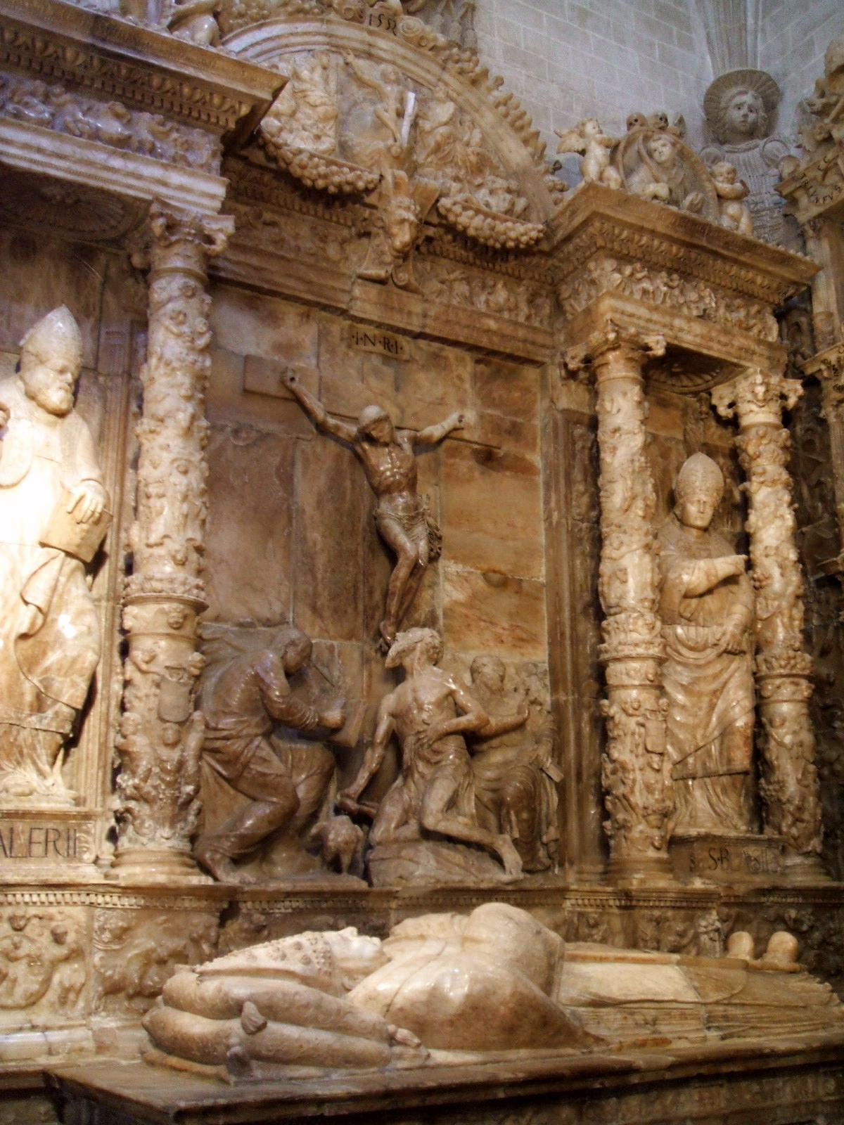 Detalle del conjunto funerario renacentista, con el sepulcro del arzobispo don Hernando de Aragón en el primer término, de la Capilla de San Bernardo de la Catedral del Salvador (La Seo) de Zaragoza (Aragón, España)